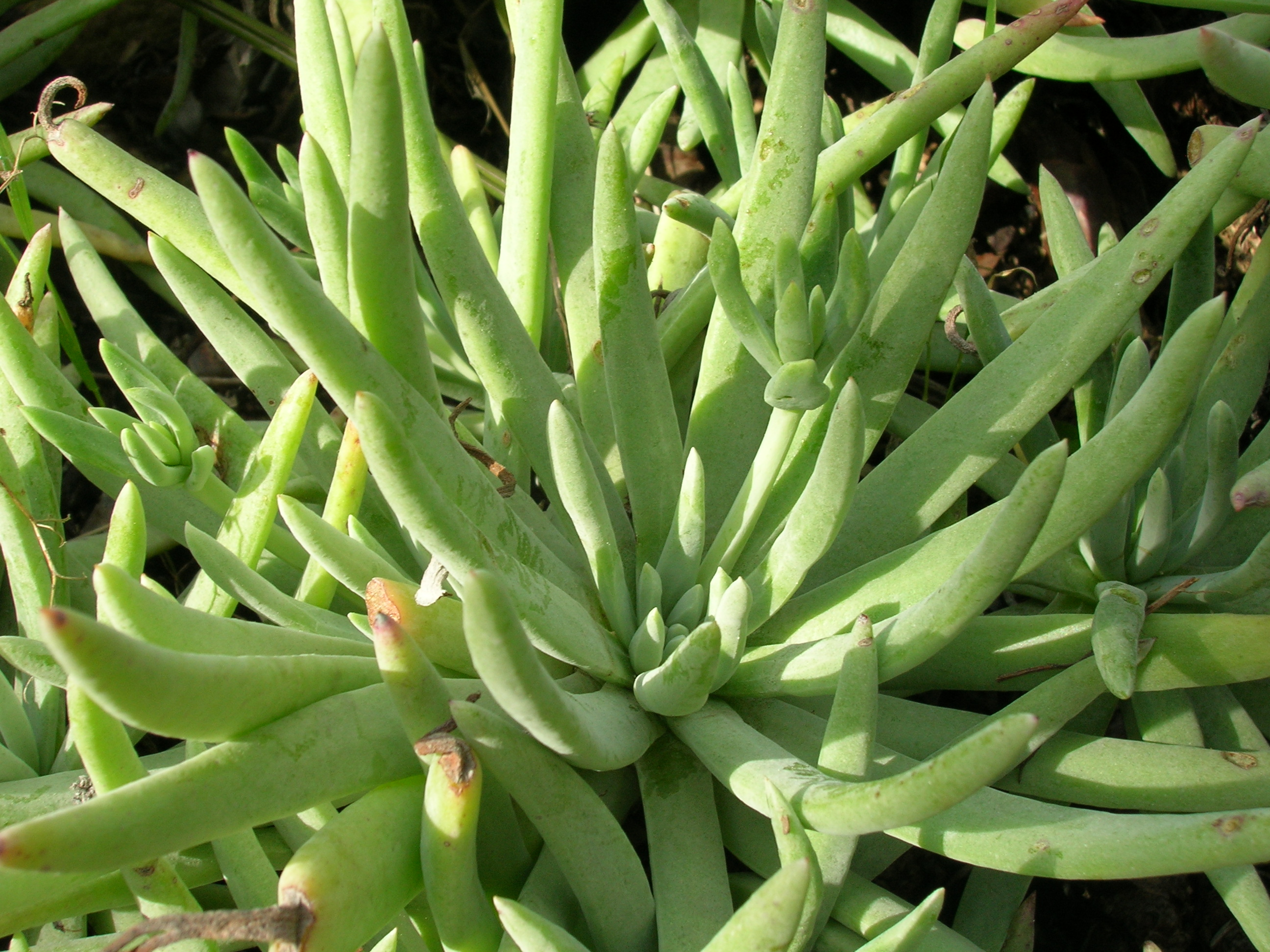 Dudleya virens ssp. hassei — Catalina Live-Forever; Crassulaceae. Endemic to Catalina Island, of the Channel Islands of Southern California. At the Wrigley Botanical Garden, on Catalina Island, Los Angeles County, California. i020606 095